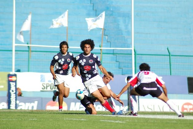 PSG rugby seven in Punta del Este, Uruguay.